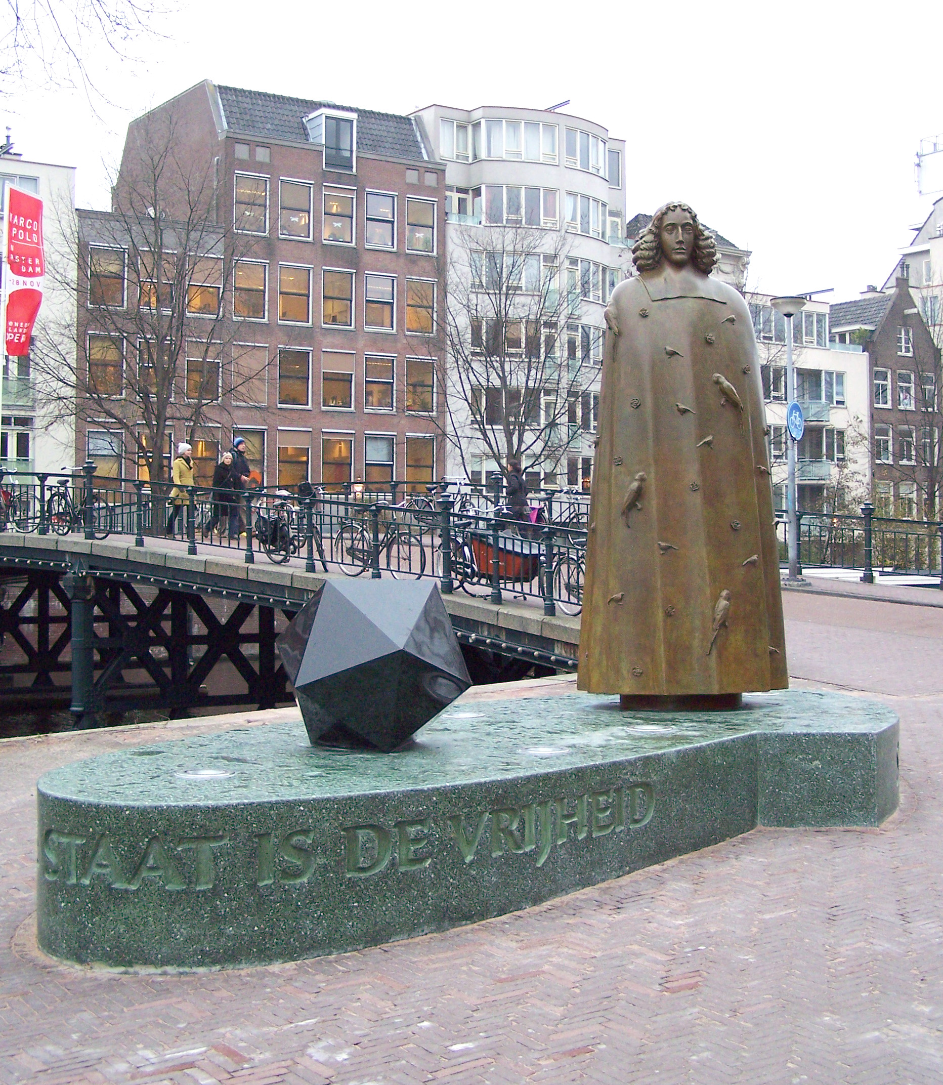 Statue of Baruch de Spinoza by Nicolas Dings in 2008. Placed at the Zwanenburgwal in Amsterdam.